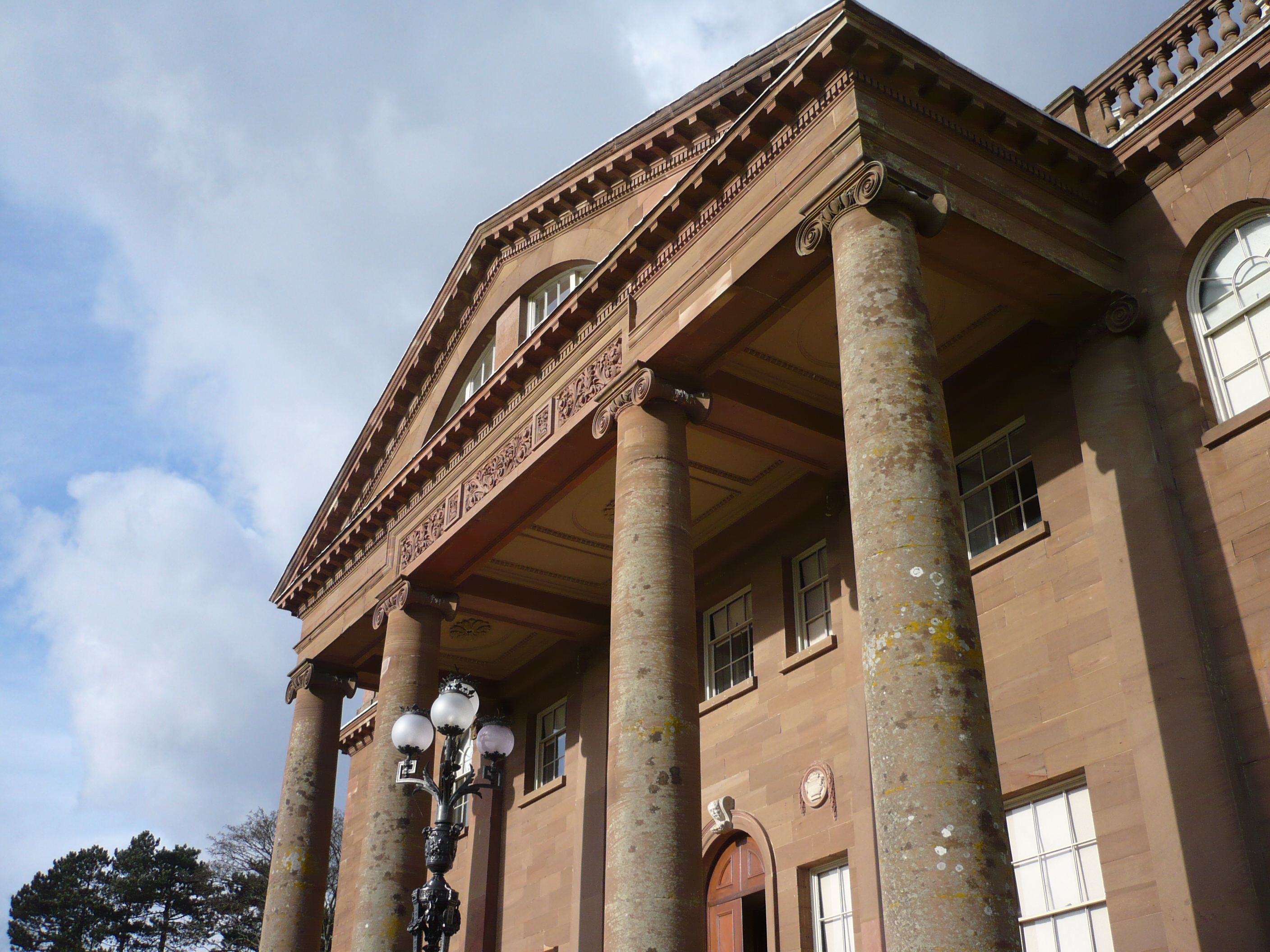 Front aspect of Berrington Hall, taken from a low angle